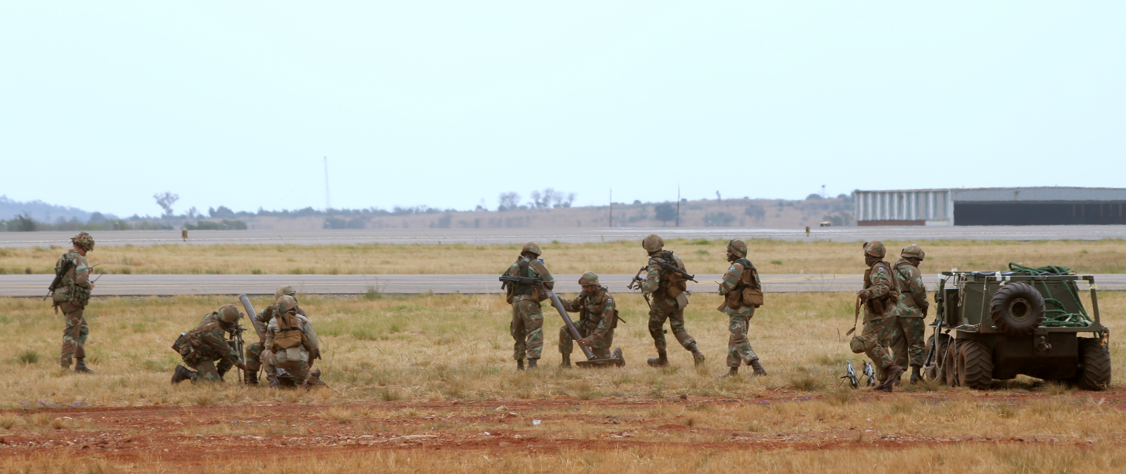 South African National Defence Force Airborne soldiers equipped with a Gecko 8x8 ATV deploying mortars during a mock combat demonstration at AFB Waterkloof in October 2011